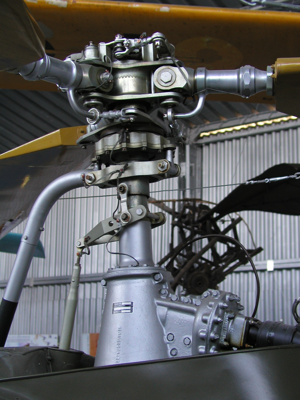 Rotor system of the HC 102 Heli Baby helicopter, built in Czechoslovakia in 1960. Dsiplayed at the Aviation Museum in Kosice, Slovakia.